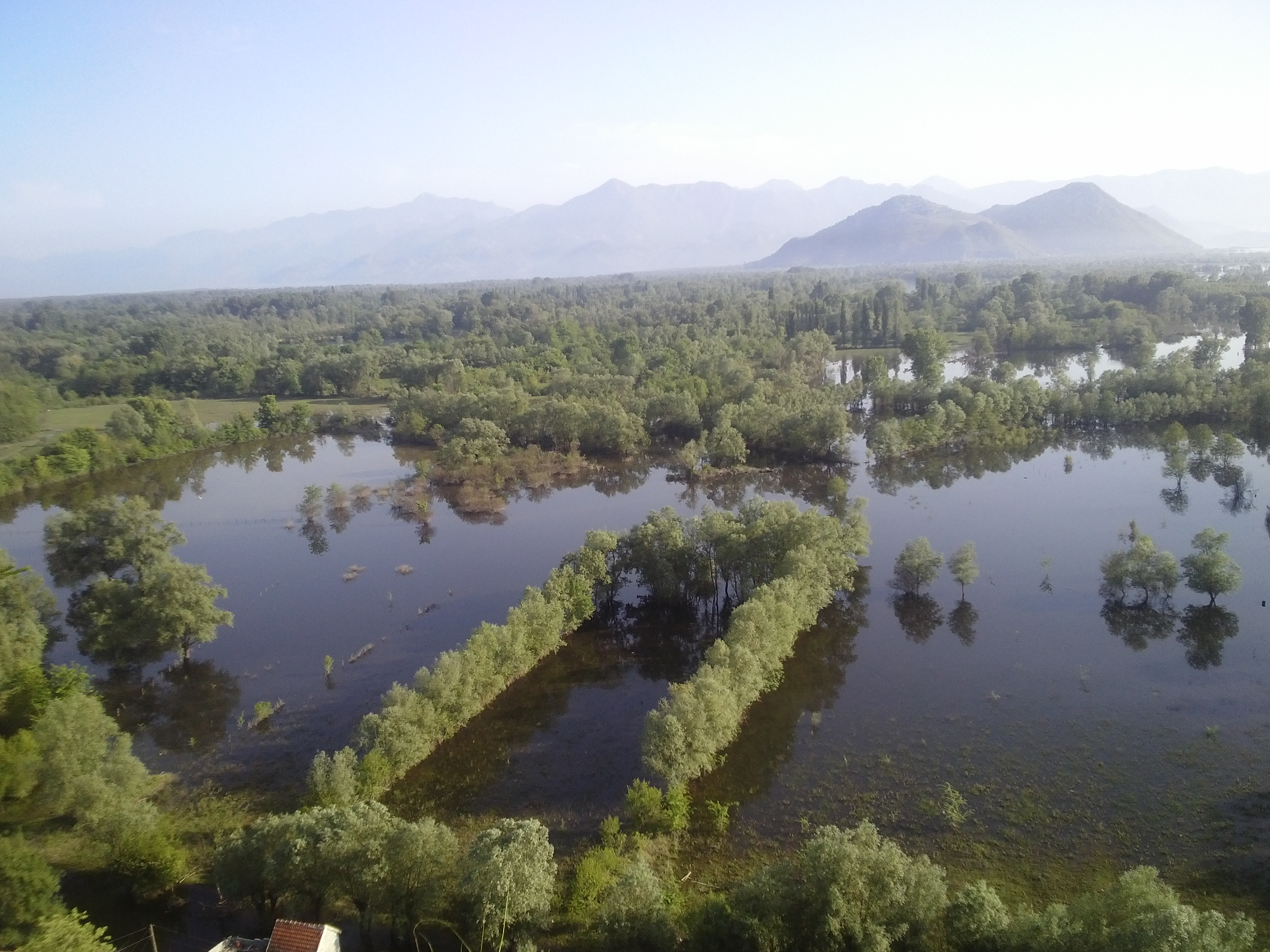 Vranina on the horizon, view from Žabljak Crnojevića